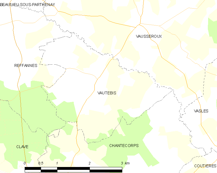 Map of French municipality Vautebis